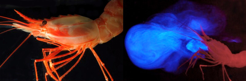 The deep-sea pandalid shrimp Heterocarpus ensifer and a photo of the same animal ‘vomiting’ light from glands located near its mouth. Photographed during the Bioluminescence and Vision 2015 expedition, as scientists sought to gain a better understanding of how and why organisms create their own light. Learn more about the Bioluminescence and Vision 2015 expedition: [Image source